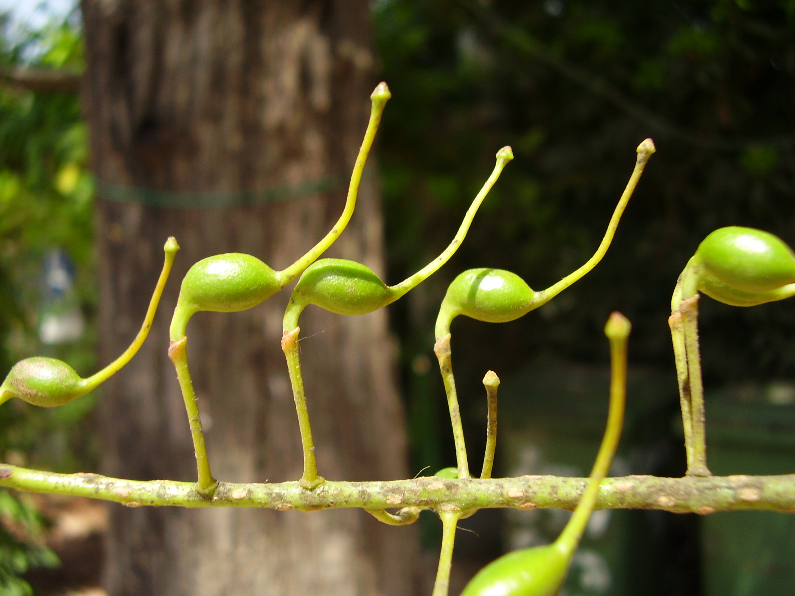 Grevillea robusta unripe seed pods